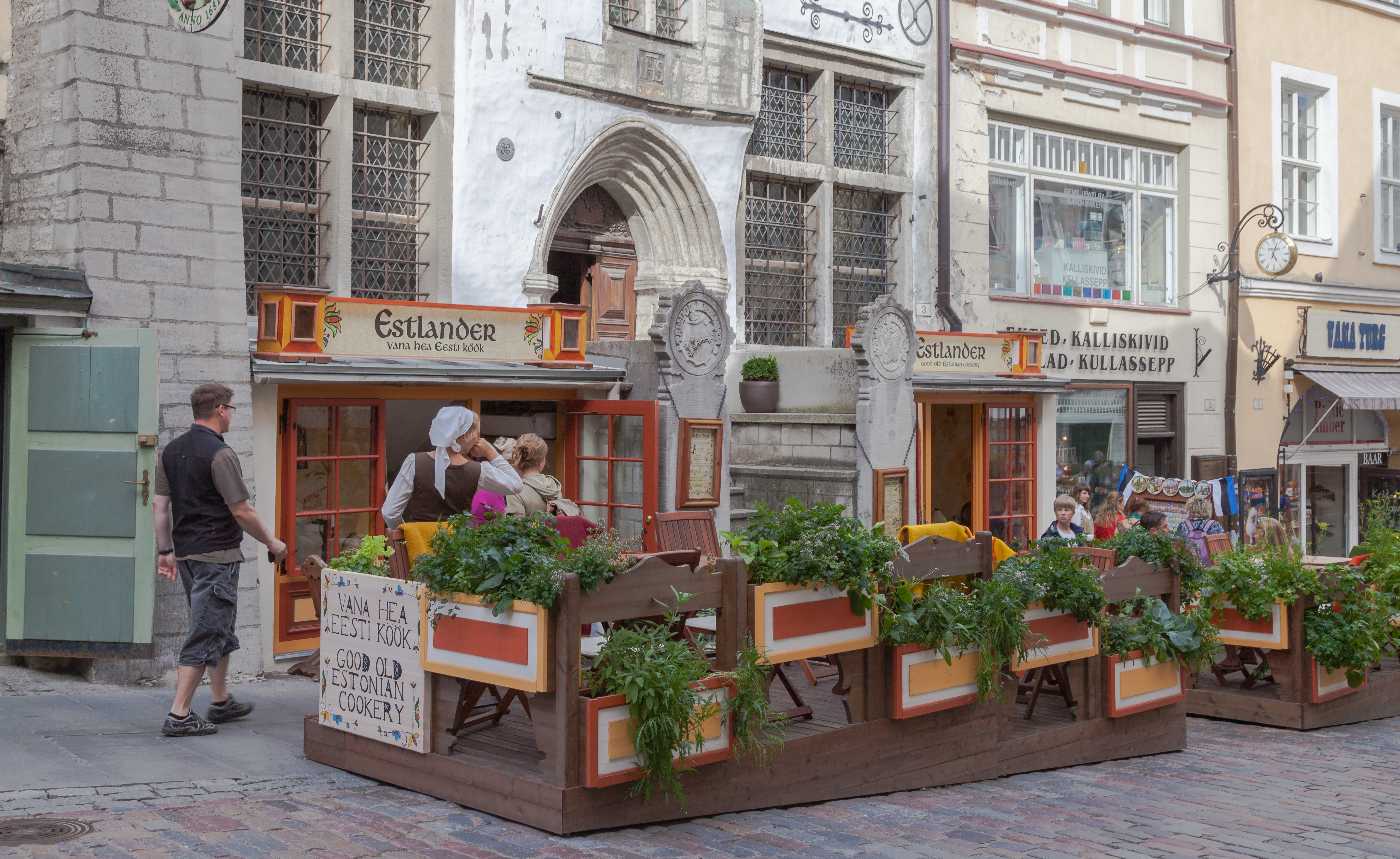 Vanaturu Kael Street, Tallinn, Estonia